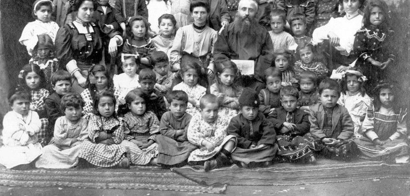 Armenian kids in Surp Jacob kindergarten, Harput